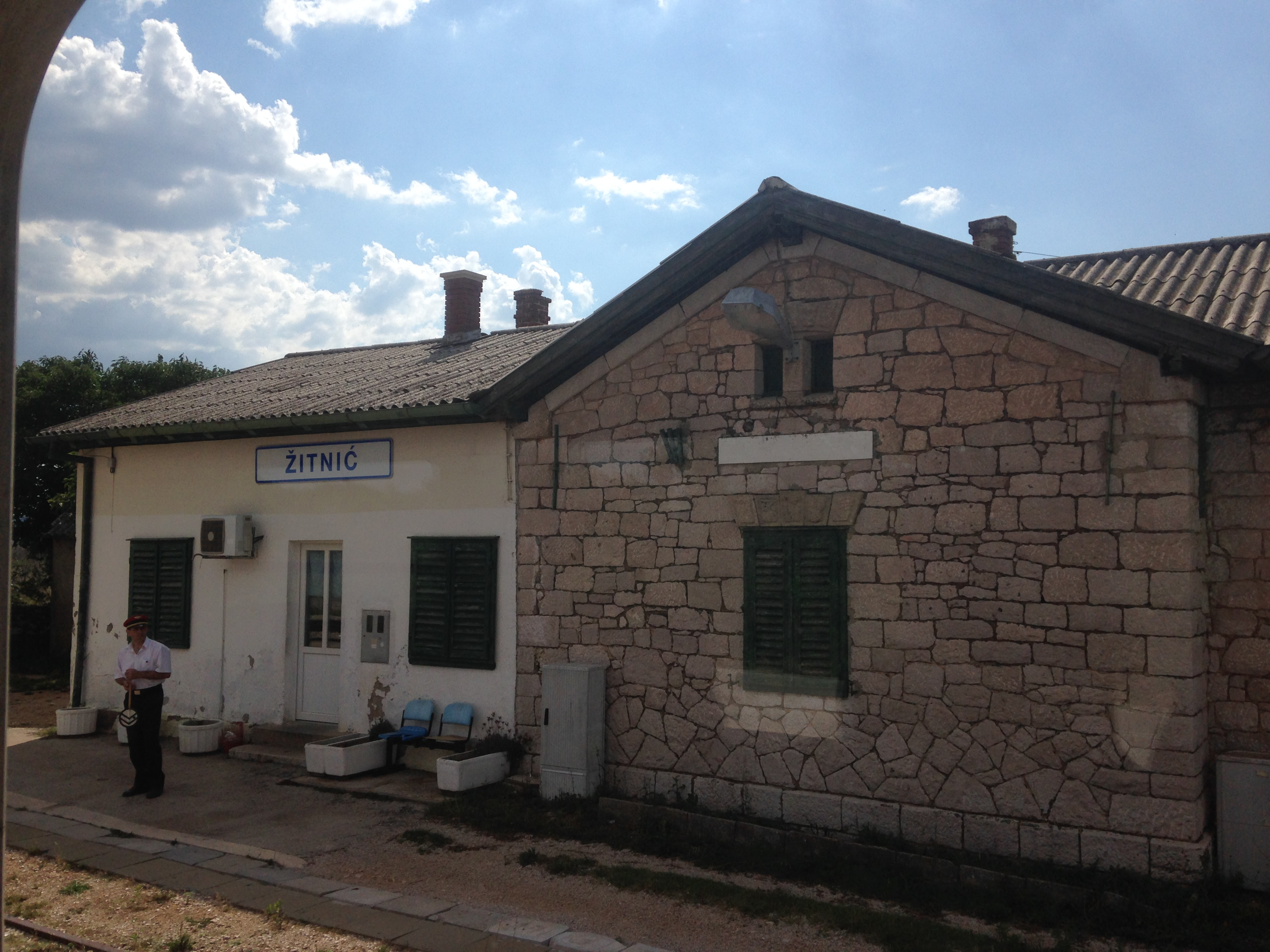 Station Žitnić